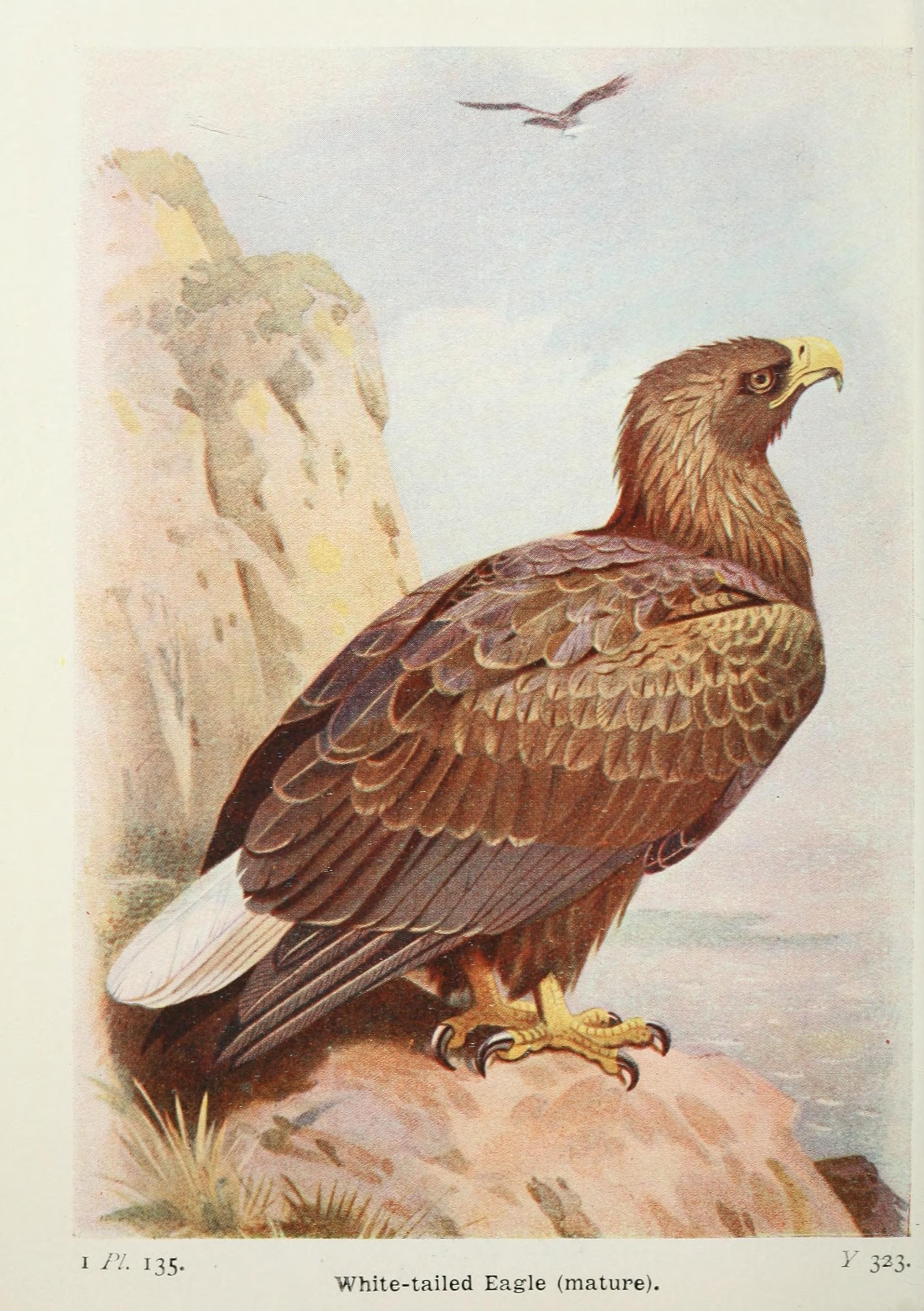 .\f**^^- % lyi. i,;s. while-tailed Eagle (mature).